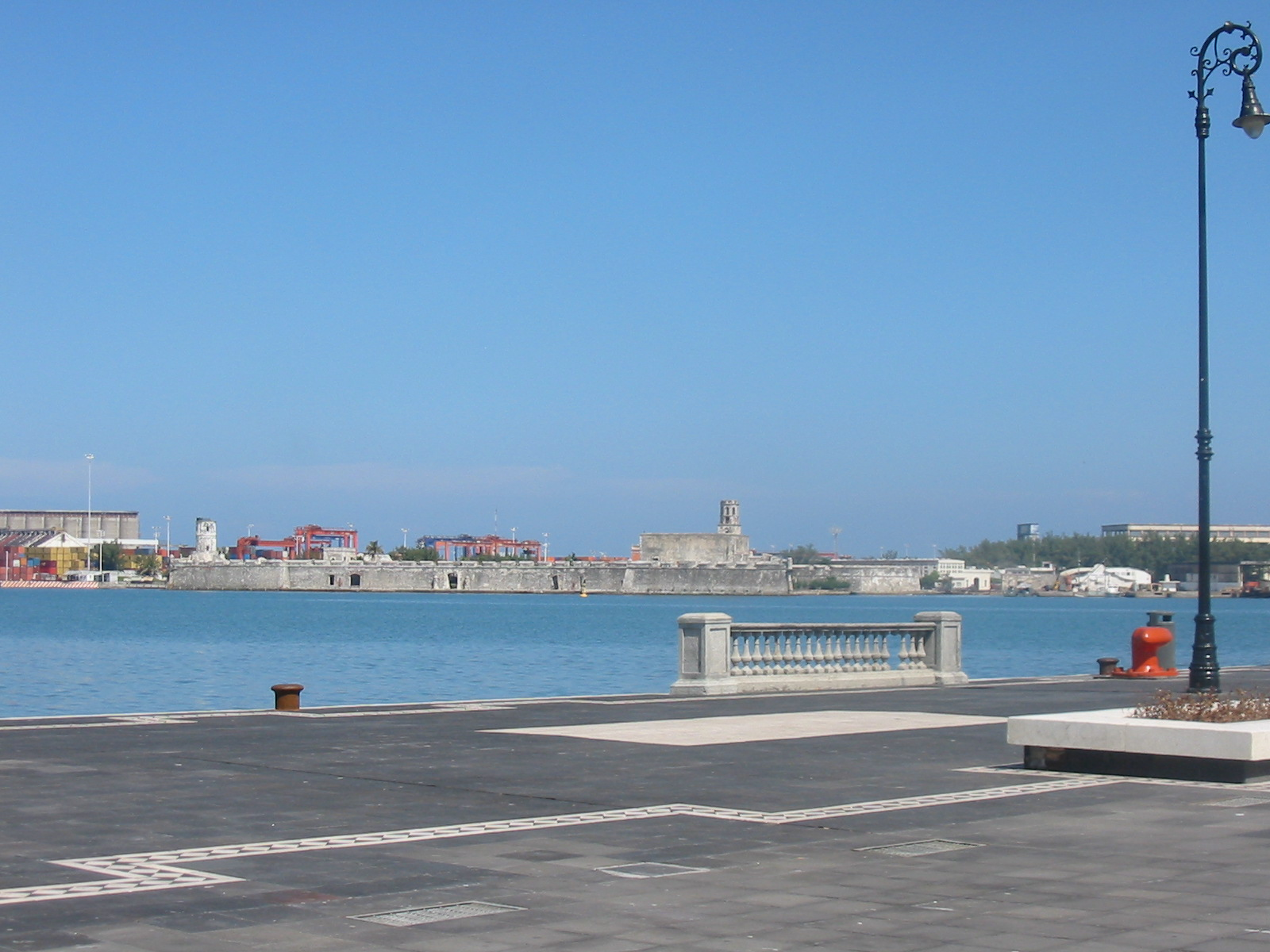 Old Spanish fort on waterfront in Veracruz Mexico